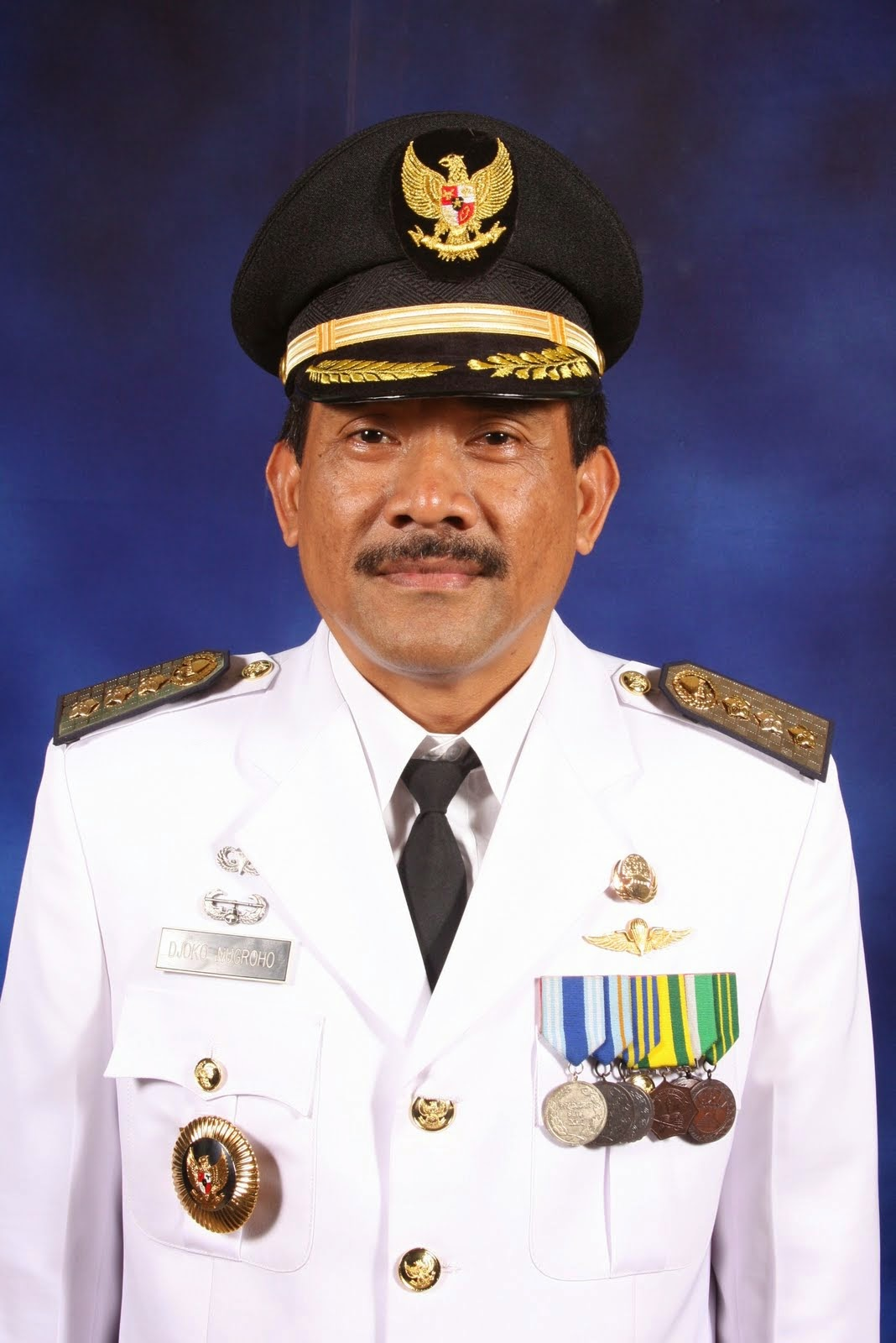 Djoko Nugroho as Regent of Blora